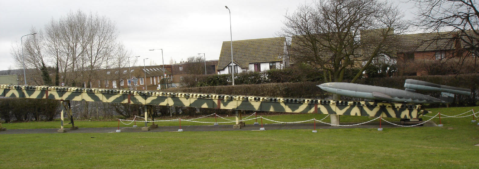 A German V1 flying bomb at Duxford Imperial War Museum Feb 2005 (del) (cur) 19:48, 20 February 2005 . . Bluemoose (Talk) . . 1586x560 (209186 bytes) (A German V1 flying bomb at Duxford Imperial War Museum Photgraphed by me Martin Richards Feb 2005 GFDL )